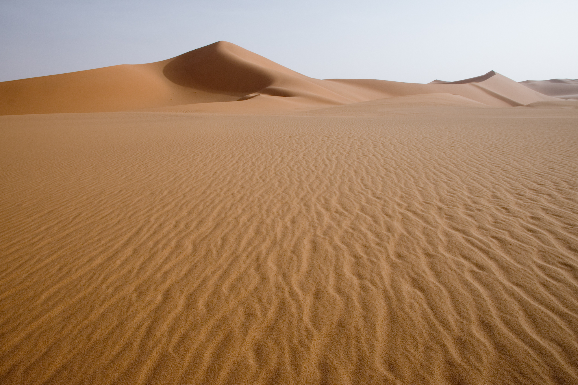 Sand dunes of Erg Awbari (Idehan Ubari) in the Sahara desert region of the Category:Wadi Al Hayaa District, of the Fezzan region in southwestern Libya.